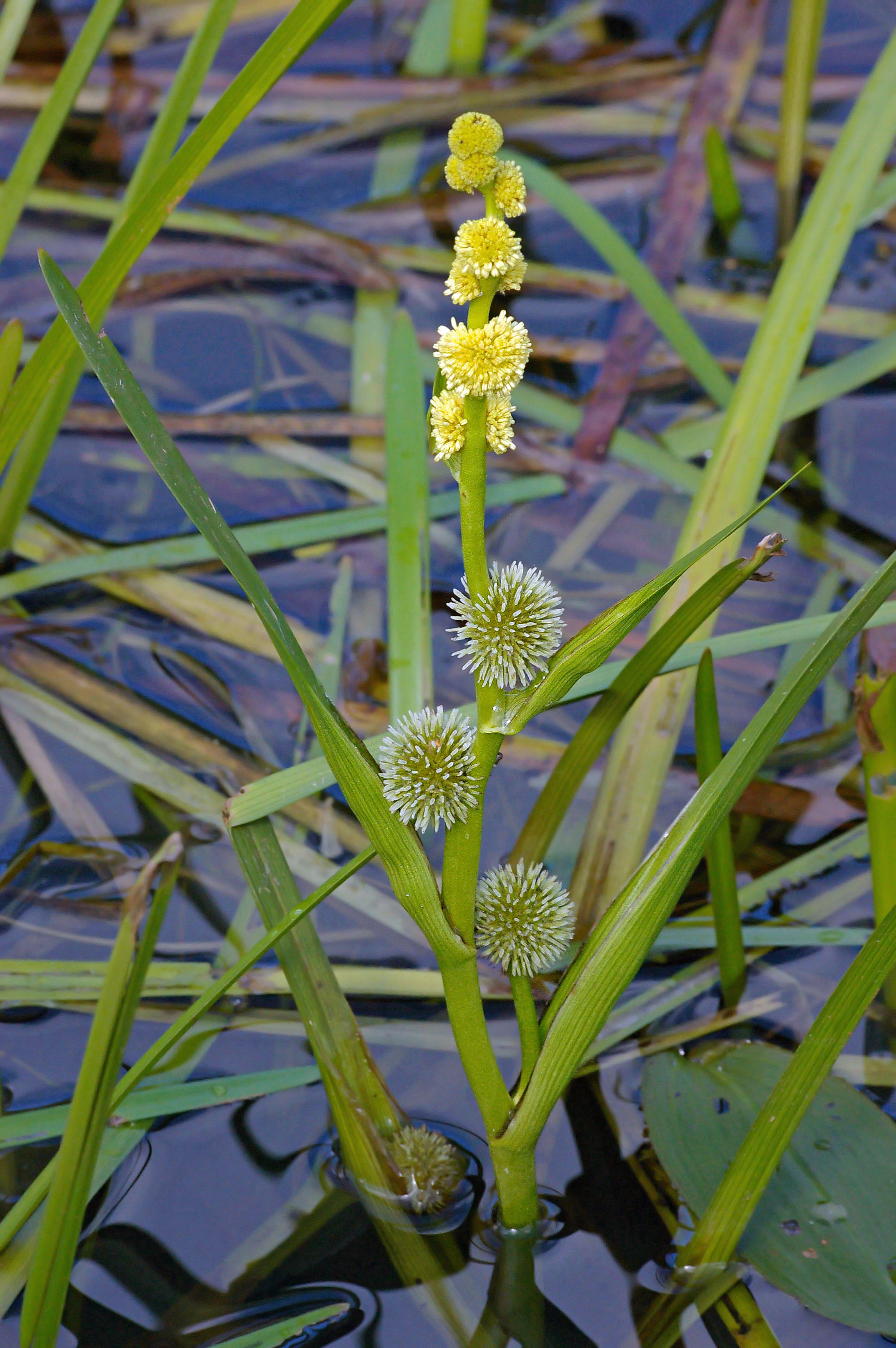 Inflorescence of European Bur-reed (Sparganium emersum).